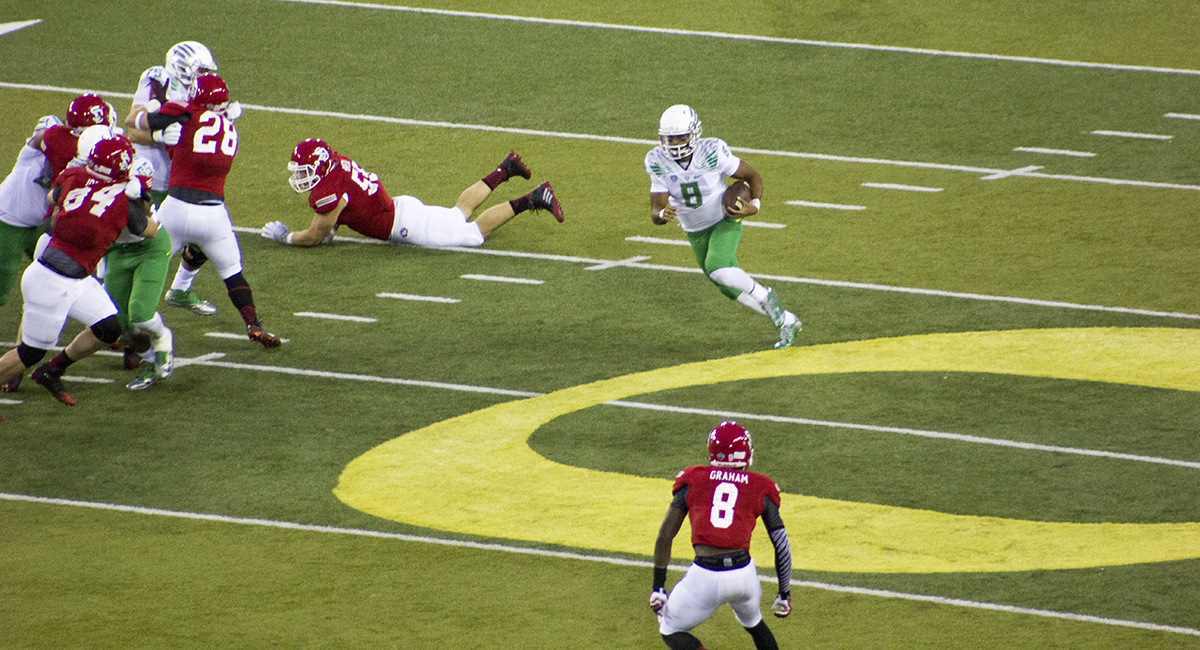 Marcus Mariota runs the ball during the first quarter against South Dakota in 2014.